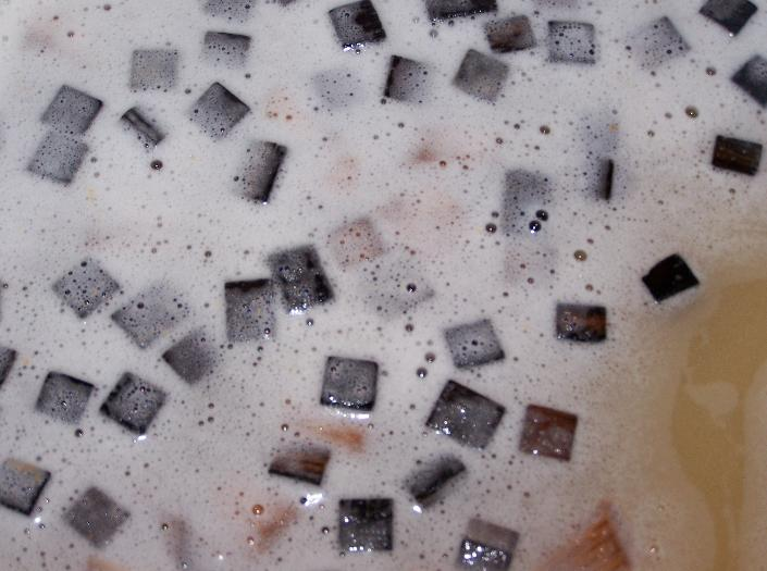 Image of oak chips in fermenting Chardonnay.